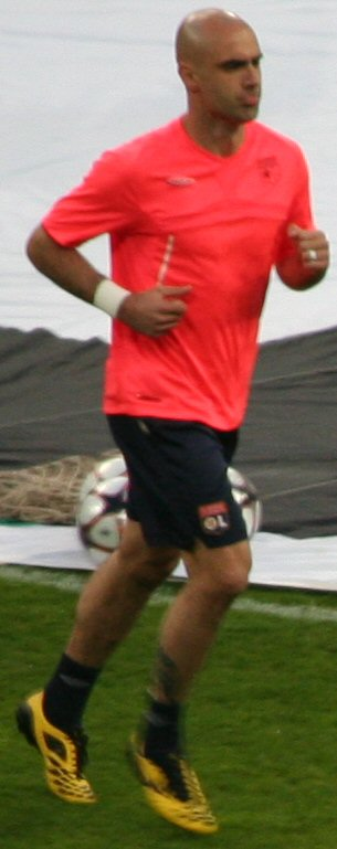 Cris during the Champions League match FC Bayern Munich vs. Olympique Lyonnais